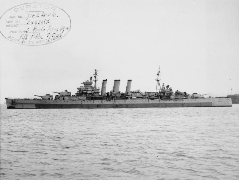 HMS Sussex At a buoy at Sheerness.